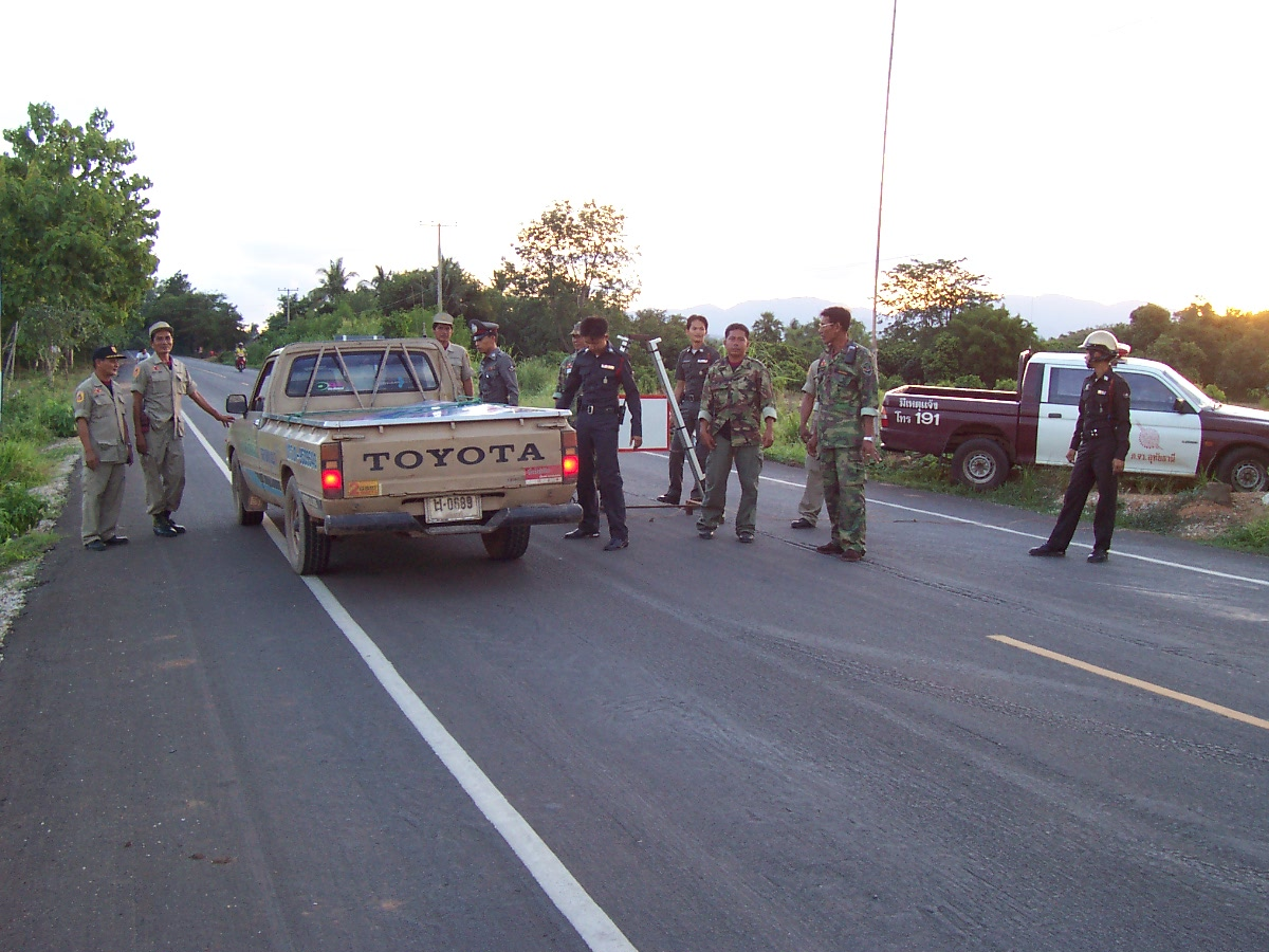 Thai Police officers - Huaikhot, Uthaithani, Thailand